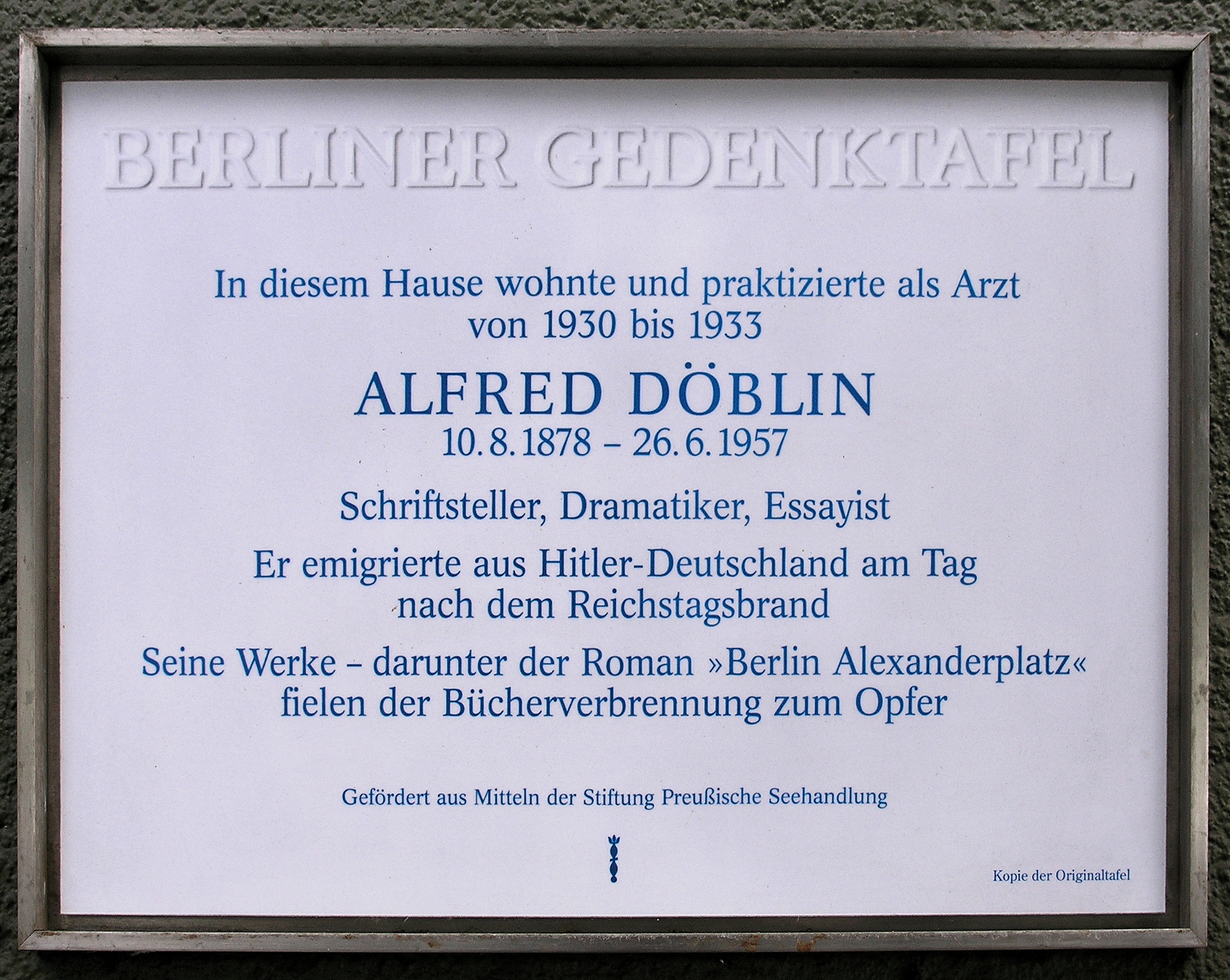 Berlin memorial plaque, Alfred Döblin, Kaiserdamm 28, Berlin-Westend, Germany